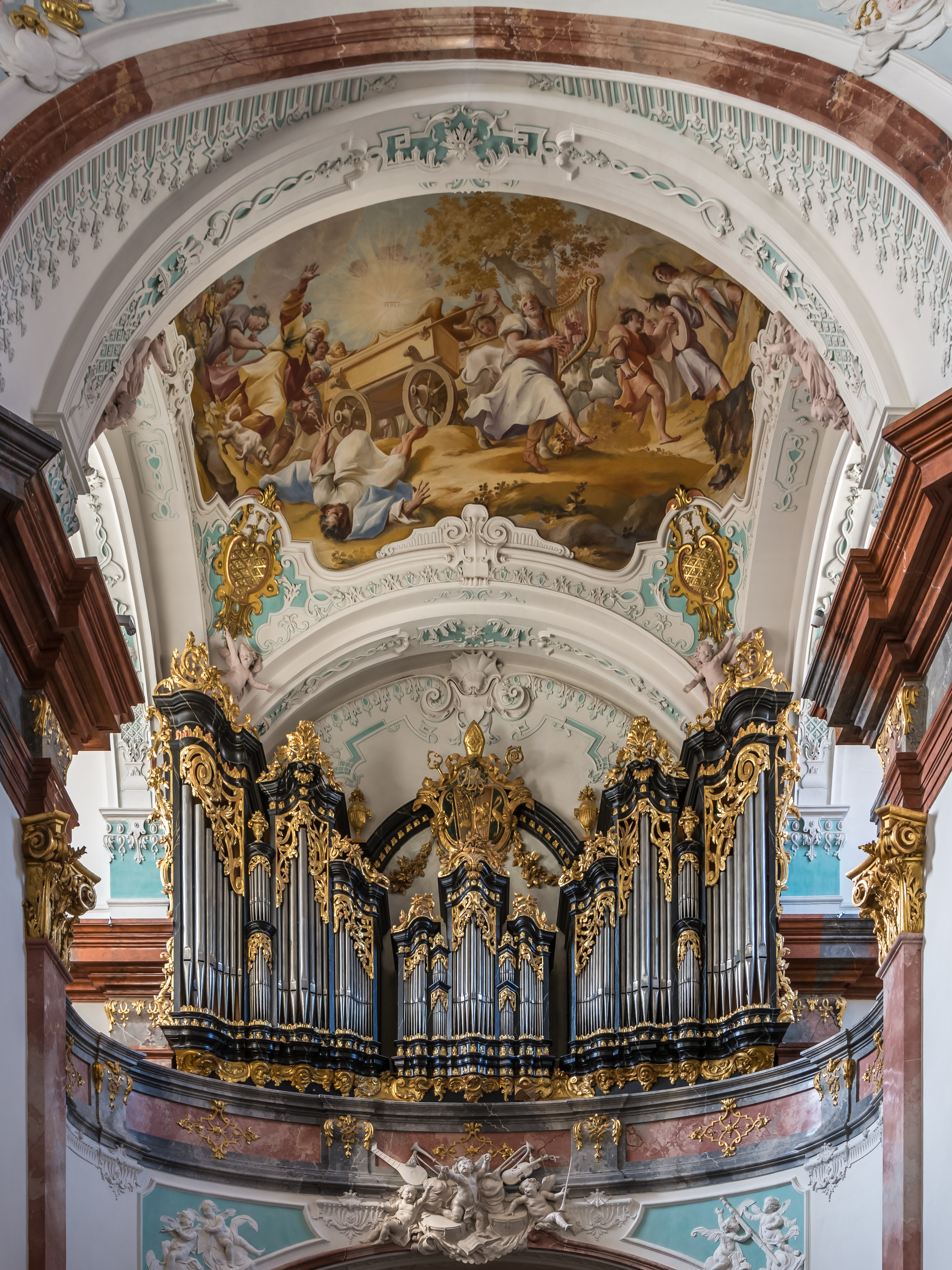 Organ of Altenburg Abbey Church (Lower Austria) by Anton Pfliegler (1773). Above the fresco by Paul Troger (1733): Transfer of the Ark of the Covenant by King David.